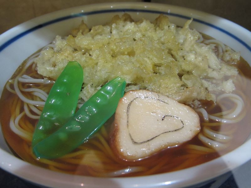 tanuki.soba.nudle